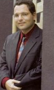 Raphael Cohen-Almagor in Holland